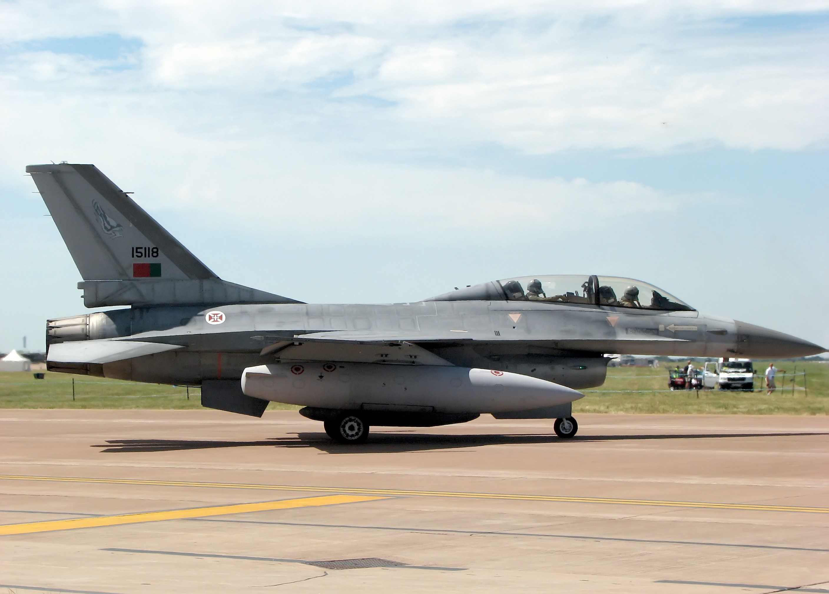 F-16B twin-seat Fighting Falcon (identifier 15118) of the Portuguese Air Force taxis for takeoff at the Royal International Air Tattoo, Fairford, Gloucestershire, England. Photographed by Adrian Pingstone on July 17th 2006 and released to the public domain.